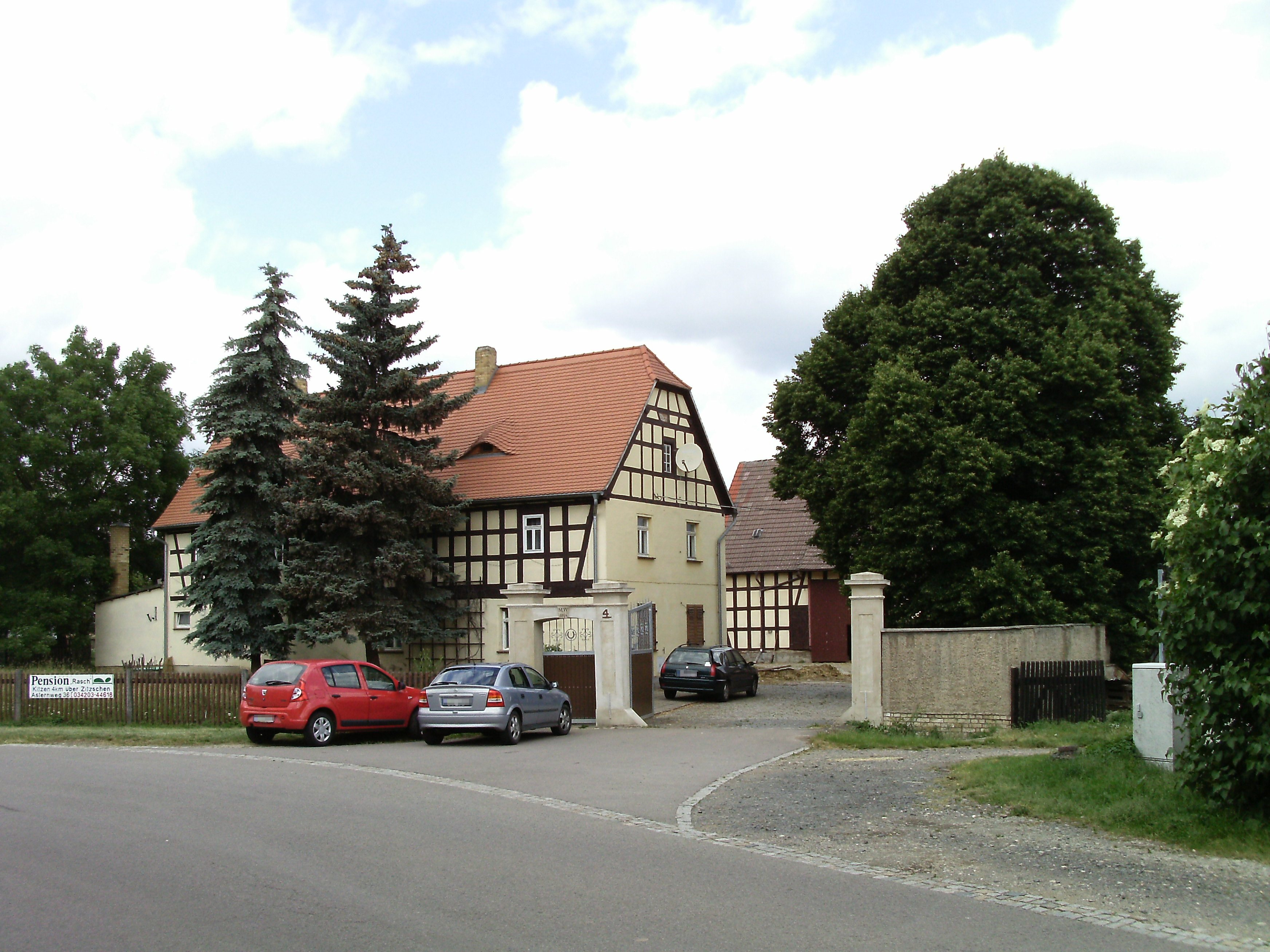 Farmstead in Kleindalzig (Zwenkau, Leipzig district, Saxony)